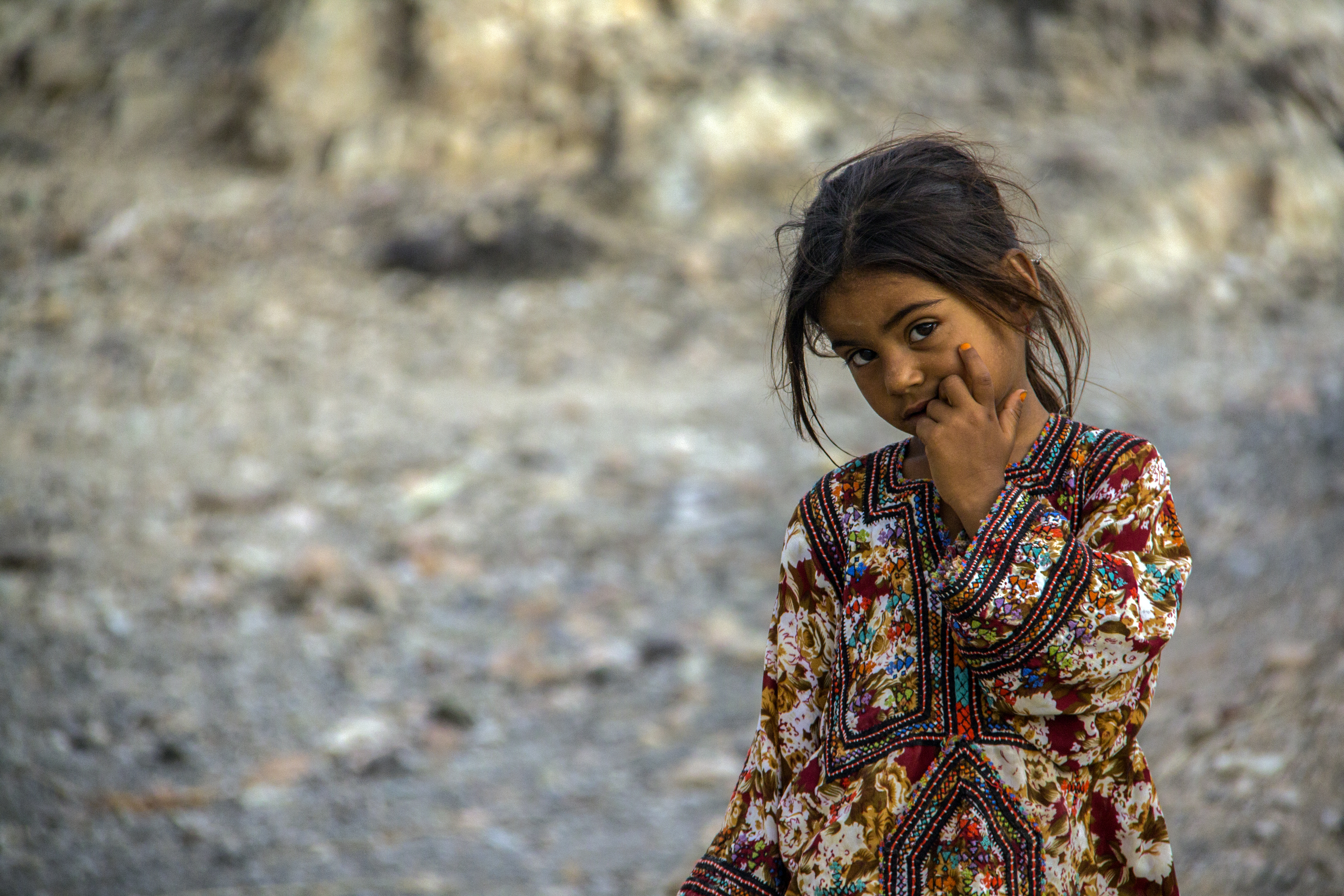 Biologically, a child (plural: children) is a human being between the stages of birth and puberty.